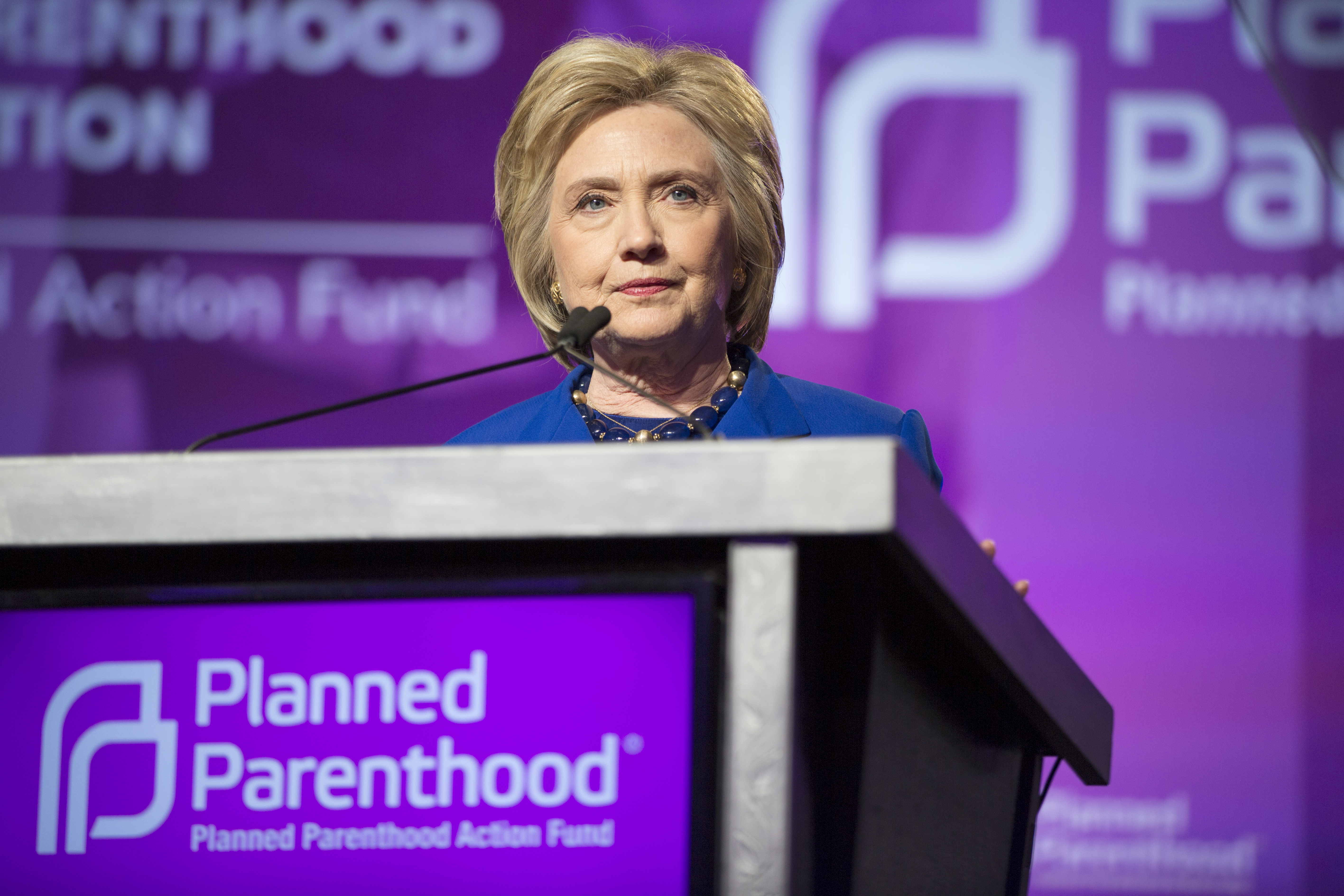 Former Secretary of State Hillary Clinton speaking at Planned Parenthood Action Fund membership event at the Washington Hilton on June 10, 2016.